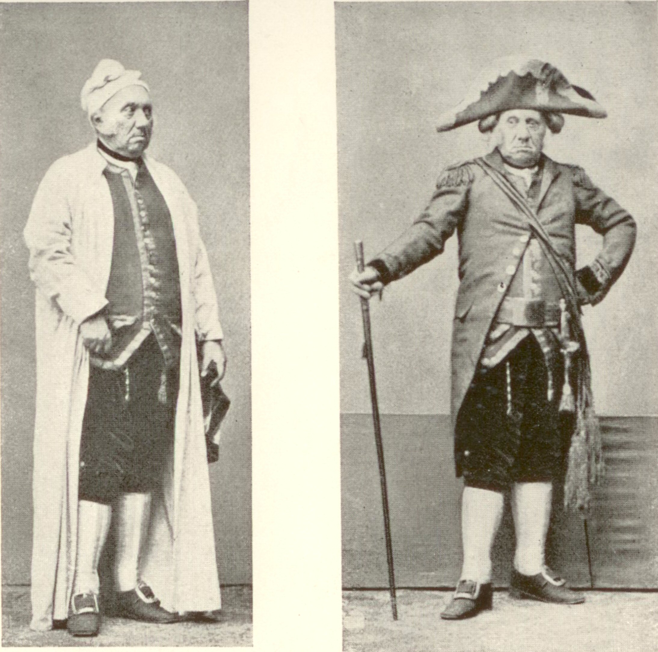 German actor and singer Samuel Friedrich Hassel (1798-1876) in Der alte Bürger-Capitain by Carl Malß.